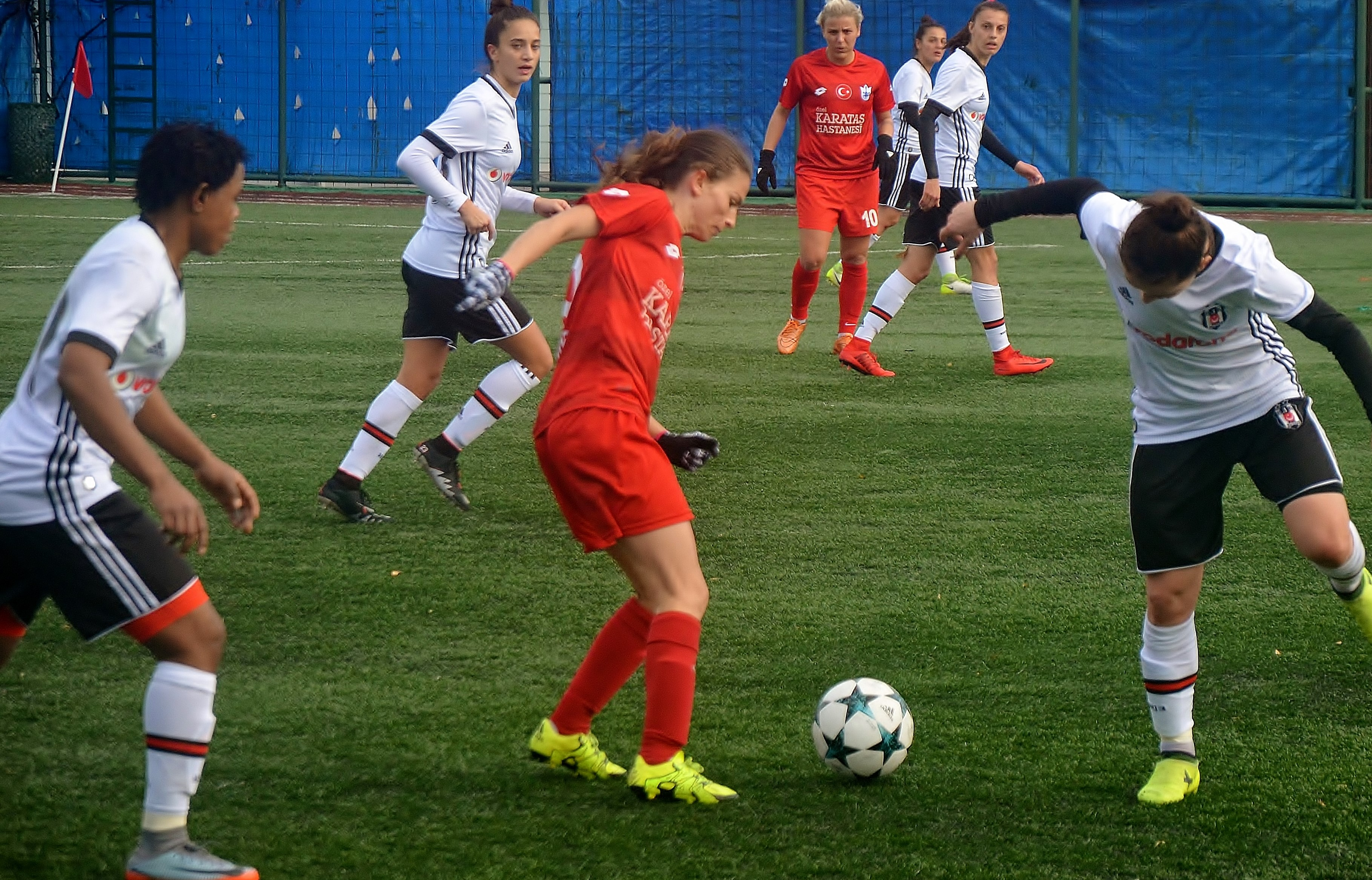 MonicaRalucaSarghe (red) playing for Konak Belediyespor against Beşiktaş J.K. in the 2017-18 season's away match.